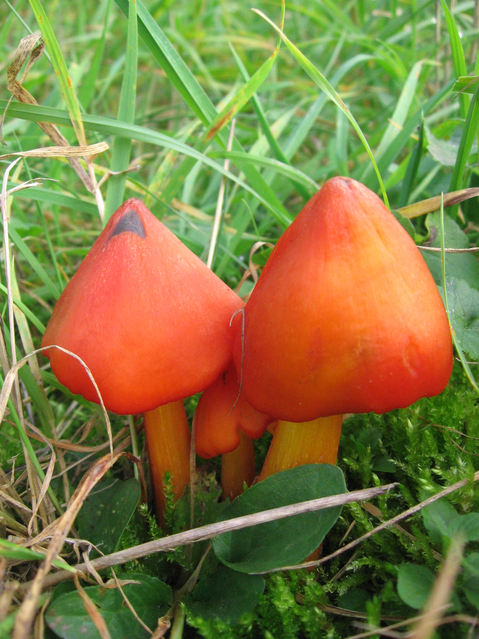 Hygrocybe conica on meadow near Nový Jičín, Czech Republic.